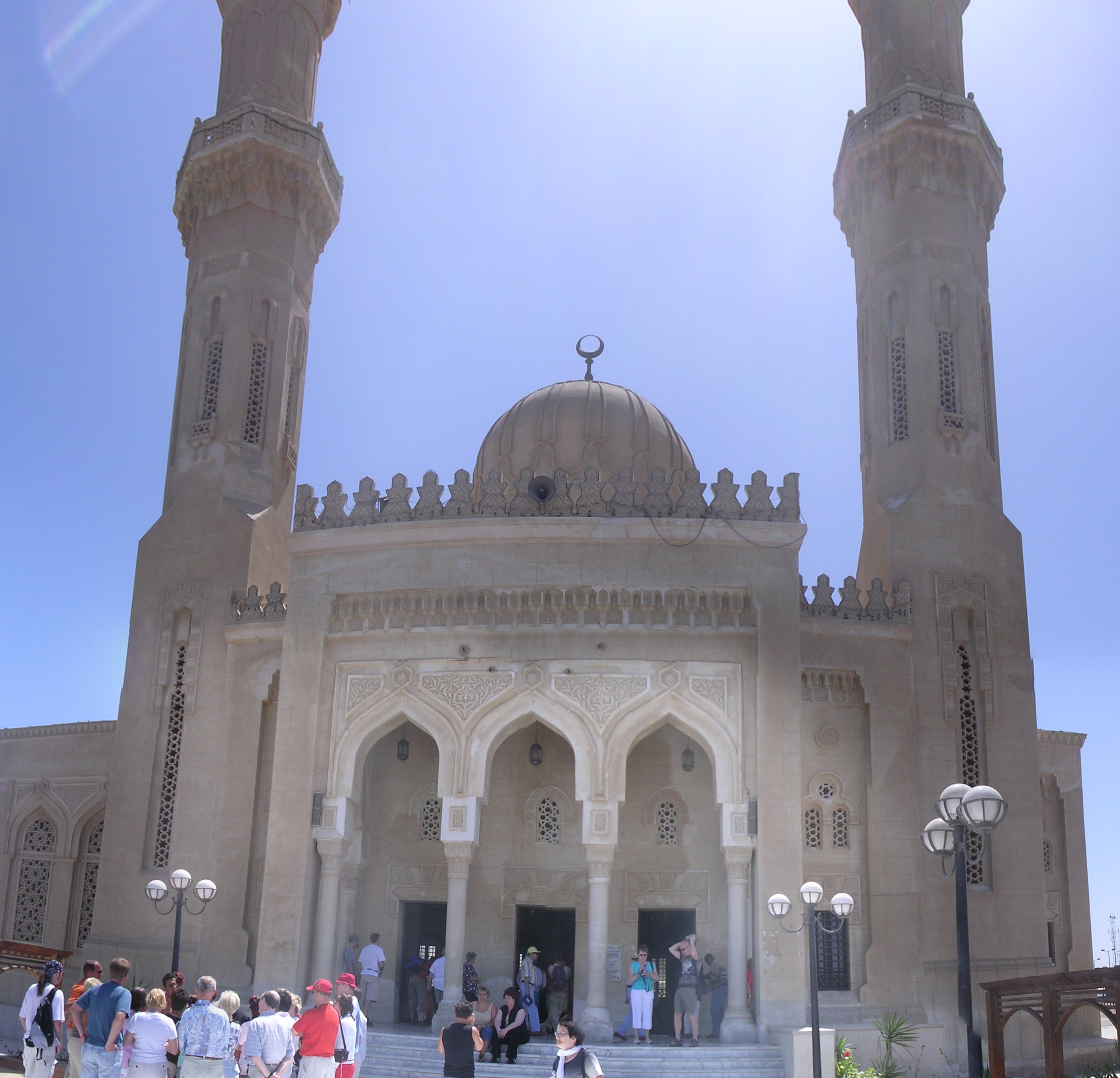 Portal of mosque in Hurghada - Egypt. Author: Andreas Krennmair